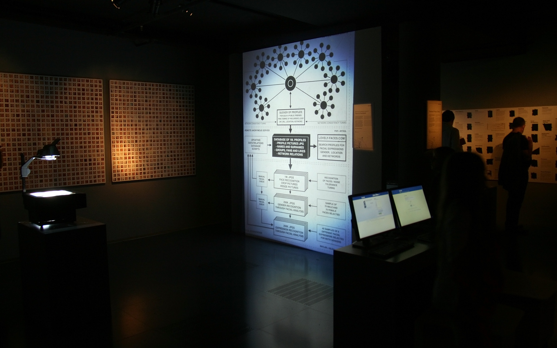 Exhibiton Außer Kontrolle - out of control at Ars Electronica Center during Ars Electronica 2012 in Linz, Upper Austria.